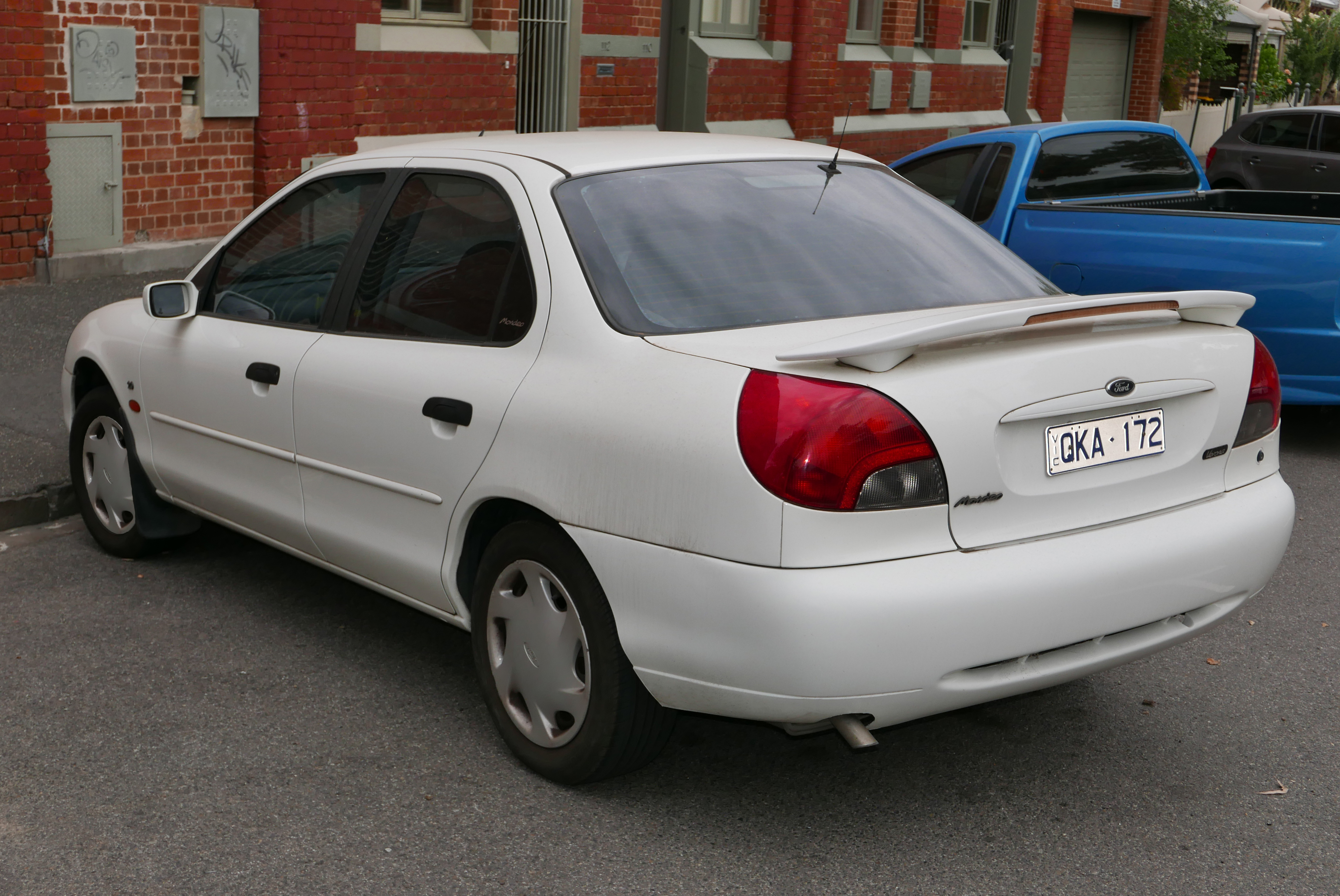 2000 Ford Mondeo (HE) Verona sedan. Photographed in Fitzroy North, Victoria, Australia. Vehicle registration enquiry resultsJurisdictionVictoriaRegistrationQKA172Chassis codeWF0FXXGBBFYC42429Engine codeNGBWB42312Compliance date2000-06Year of manufacture2000